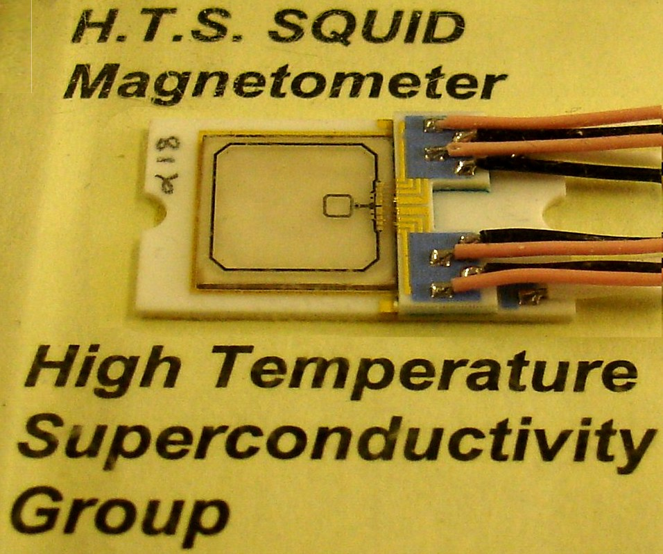 Sensing element of the SQUID ( Superconducting Quantum Interference Device ), size around 1 cm